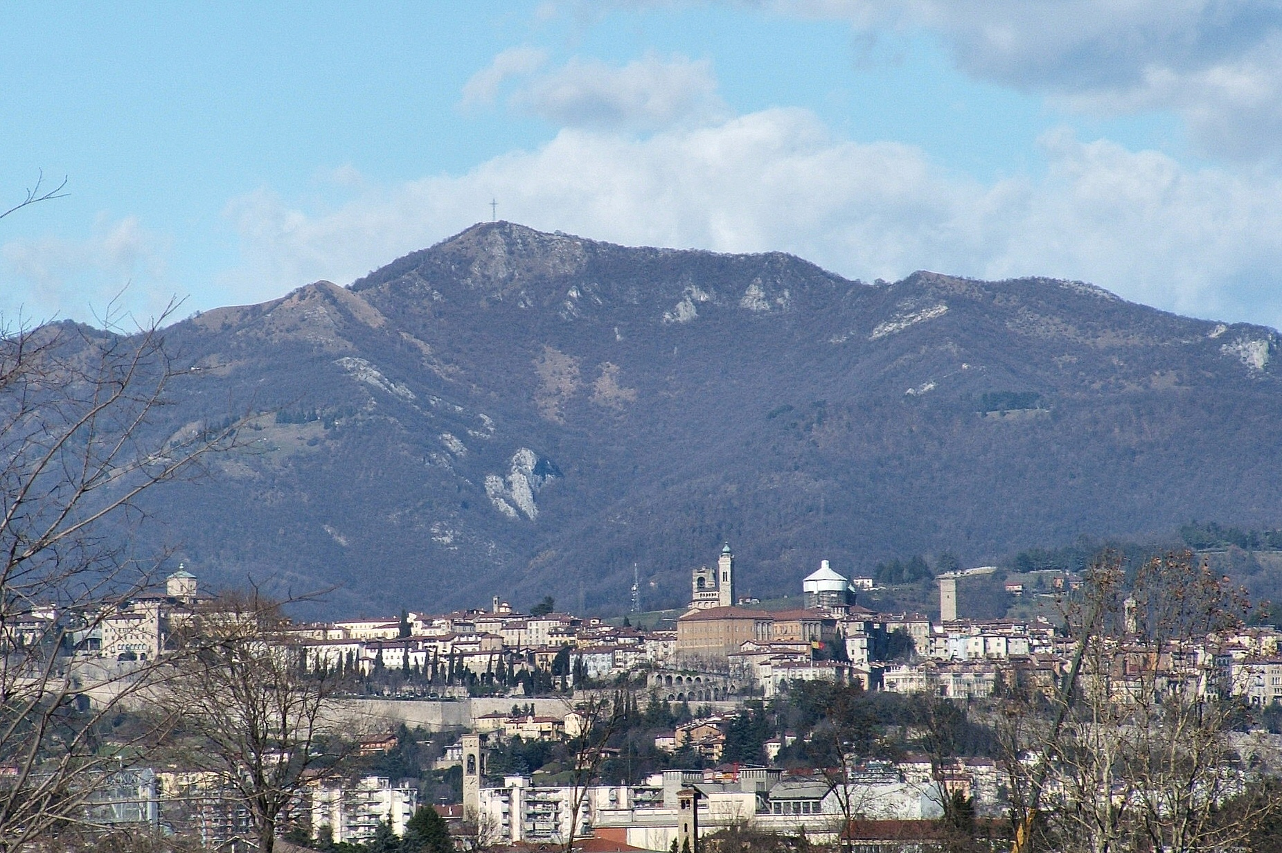 Canto Alto mountain near Bergamo, Lombardy, Italy